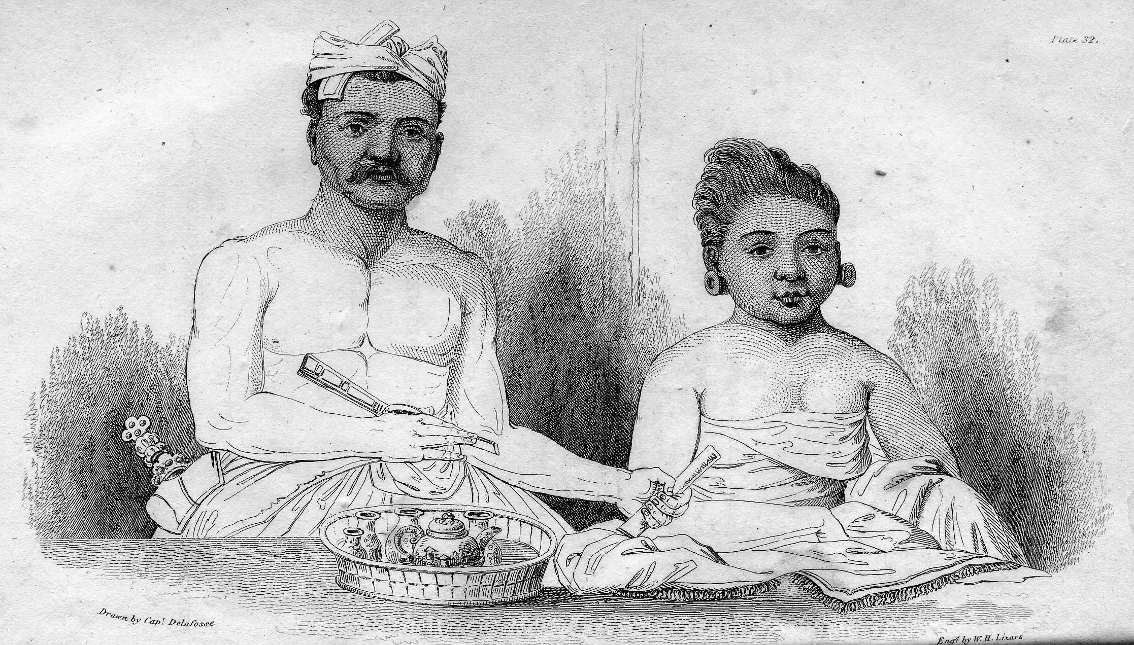 Engraving of the Raja of Bliling (Buleleng)